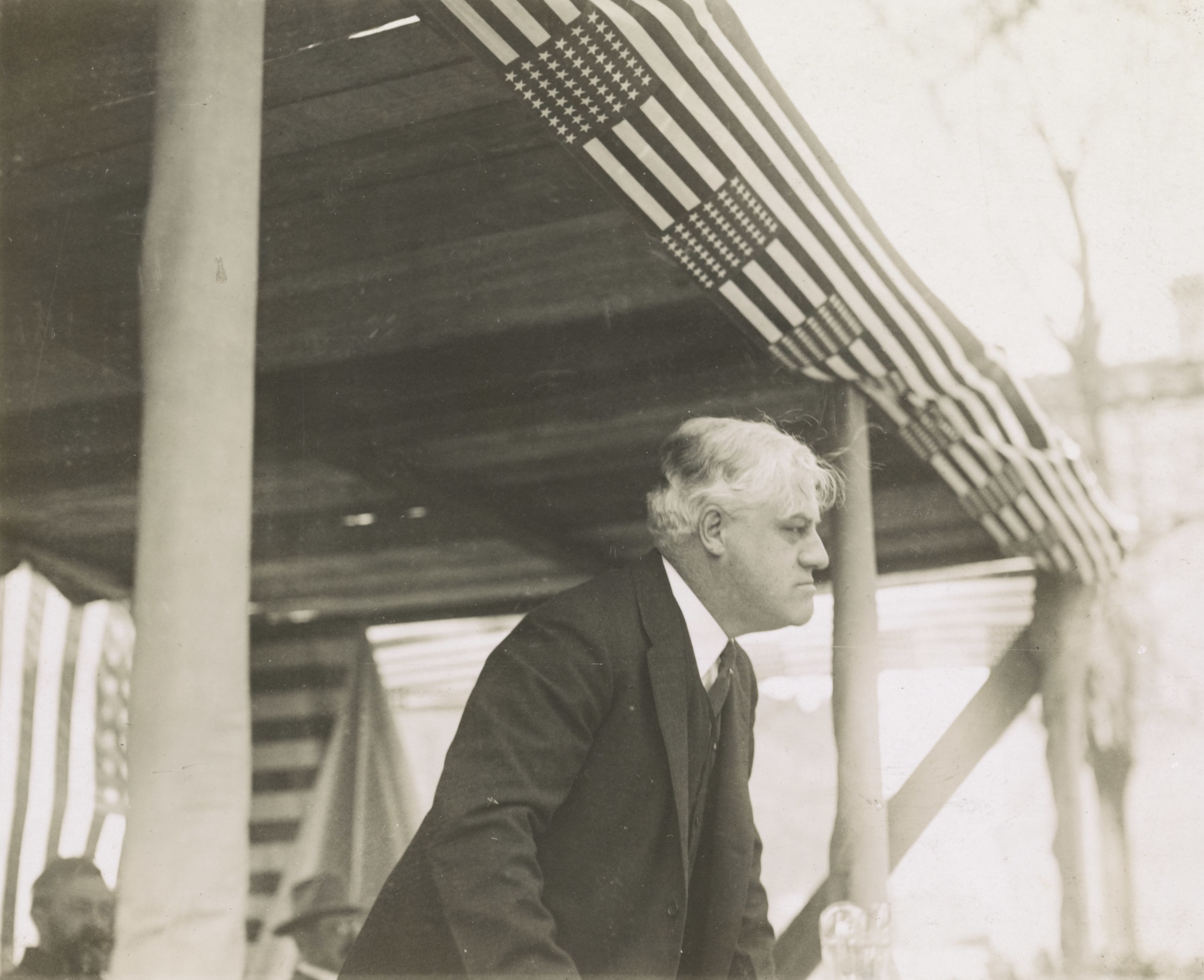 Title: Attorney General Alexander Mitchell Palmer on flag-draped podium during his campaign for the Democratic party's nomination for President Abstract/medium: 1 photograph : gelatin silver print ; sheet 10 x 12 cm.